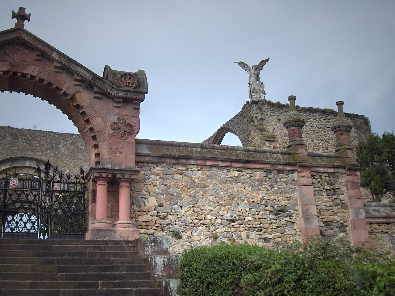 Cemetery of Comillas, Spain; statue of the Exterminator Angel by Joseph Llimona